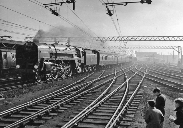 The Down 'Broadsman' passes Stratford Station, View SW, towards Liverpool St.; ex-Great Eastern Liverpool St. - Colchester etc. main line, junction for 'everywhere else' - from Dockland to Cambridge - and therefore an immensely busy station and a Mecca for train-spotters - bottom right: this was especially so before electrification began (the Tube in 1946, main-line suburban in 1949): Stratford was second only to Clapham Junction as the busiest station in Britain - and all Steam until then. The 'Broadsman' was the 15.30 Liverpool St. to Sheringham; this day it was headed by BR Standard Class 7 4-6-2 No. 70013 'Oliver Cromwell', which was the last 'Britannia' in revenue service and has been preserved.